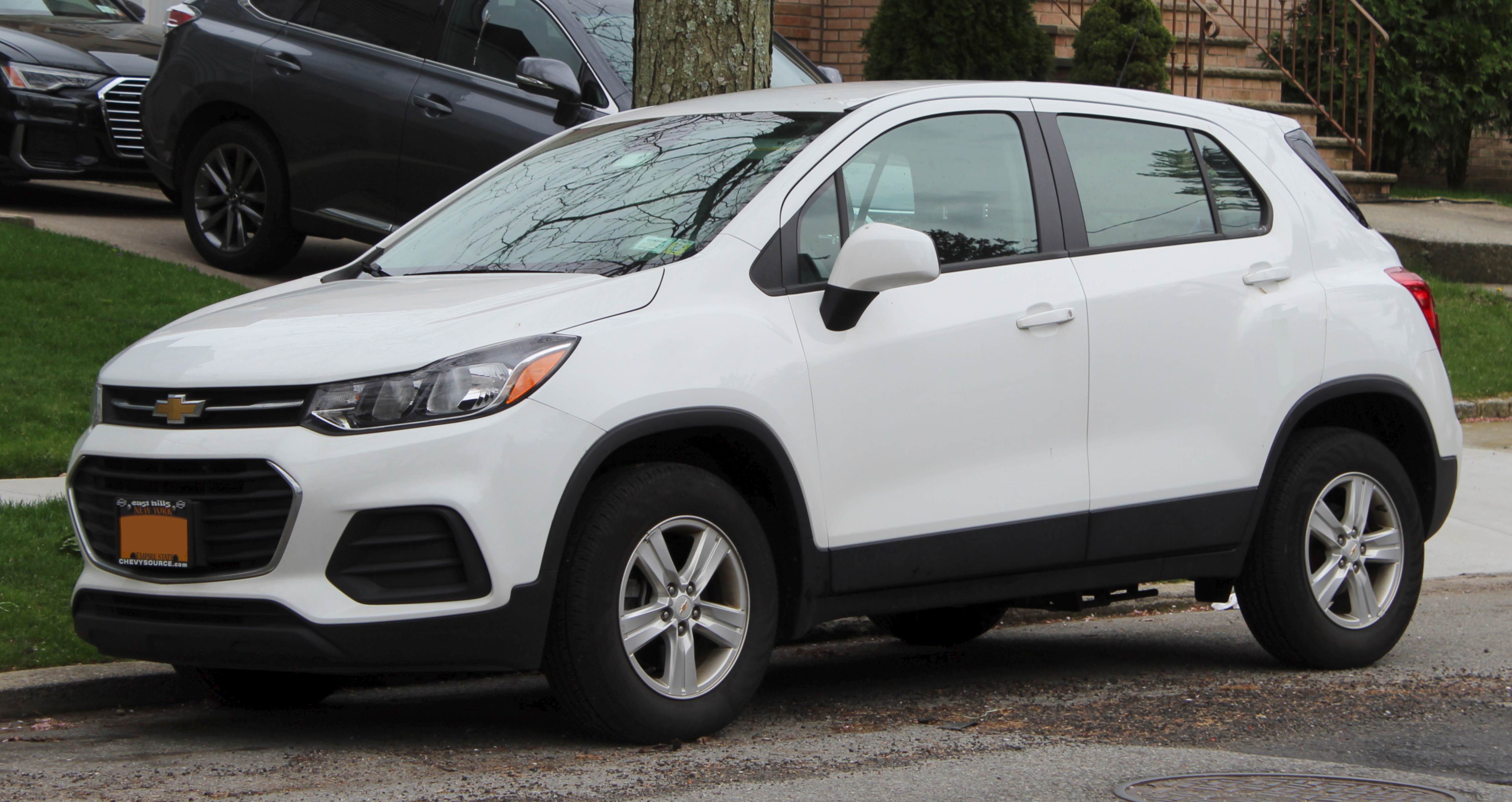 A 2018 Chevrolet Trax LT photographed in Queens, New York, USA